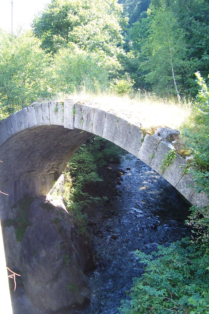 Bridge of the "Wolf's Jump". Incudine, Val Camonica, Italy